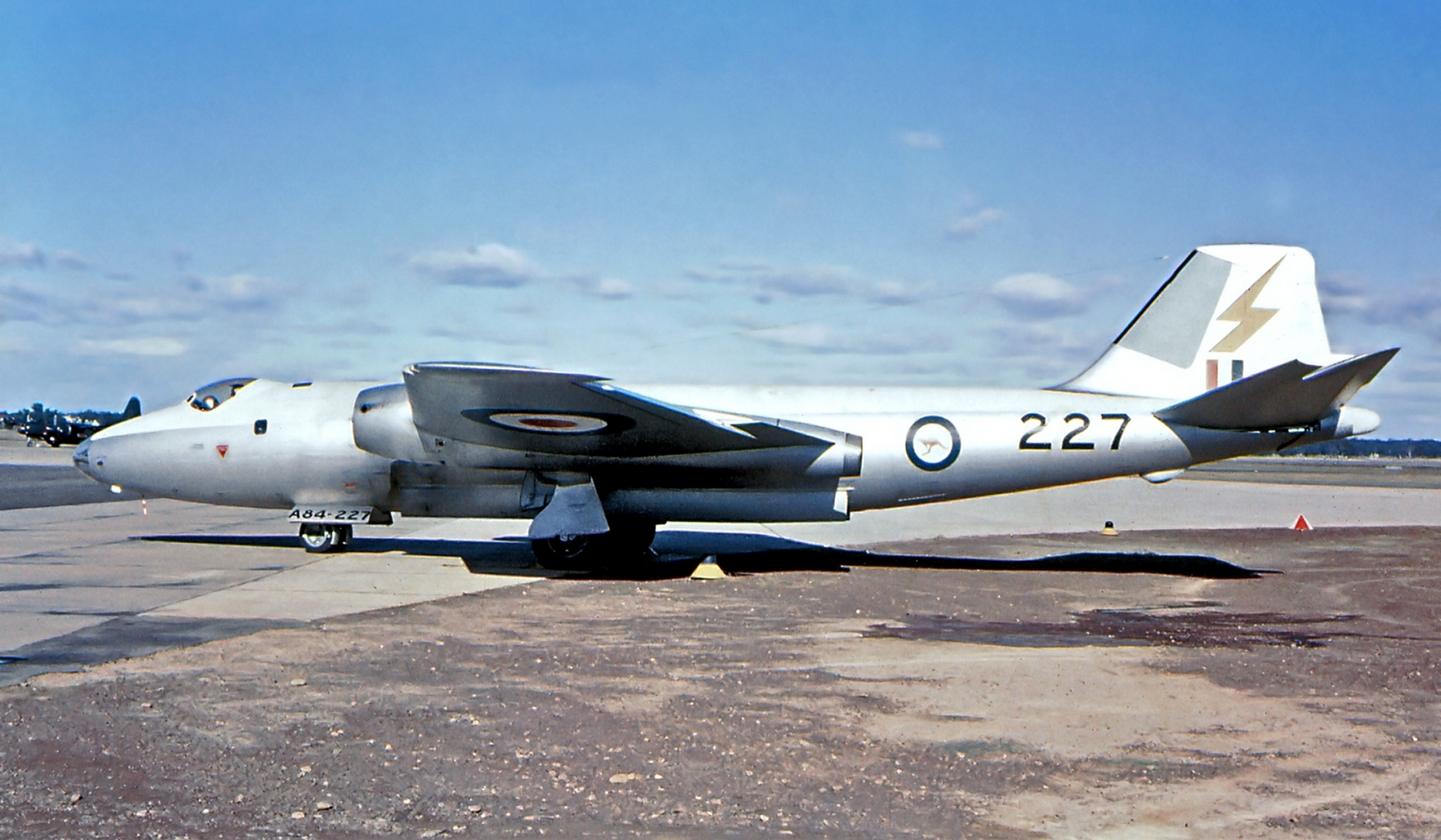 1964 - English Electric 'Canberra' bomber in RAAF livery at Richmond Air Show, NSW